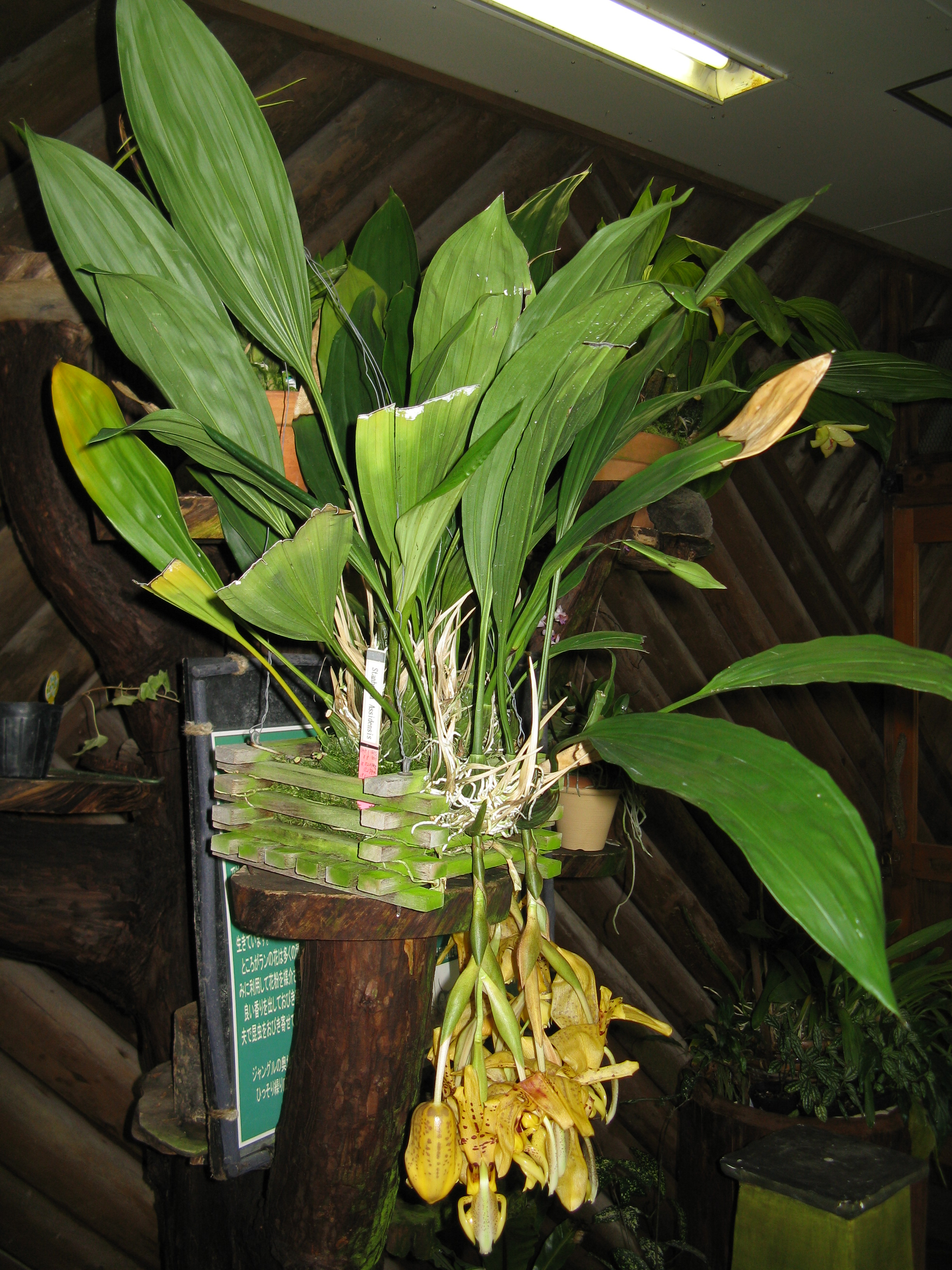 Stanhopea Assidensis Place:Osaka Prefectural Flower Garden,Osaka,Japan